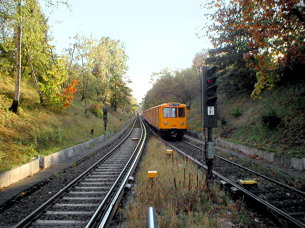 "cut rail" of the Berlin U-Bahn line U3 between the stations Thielplatz and Dahlem-Dorf